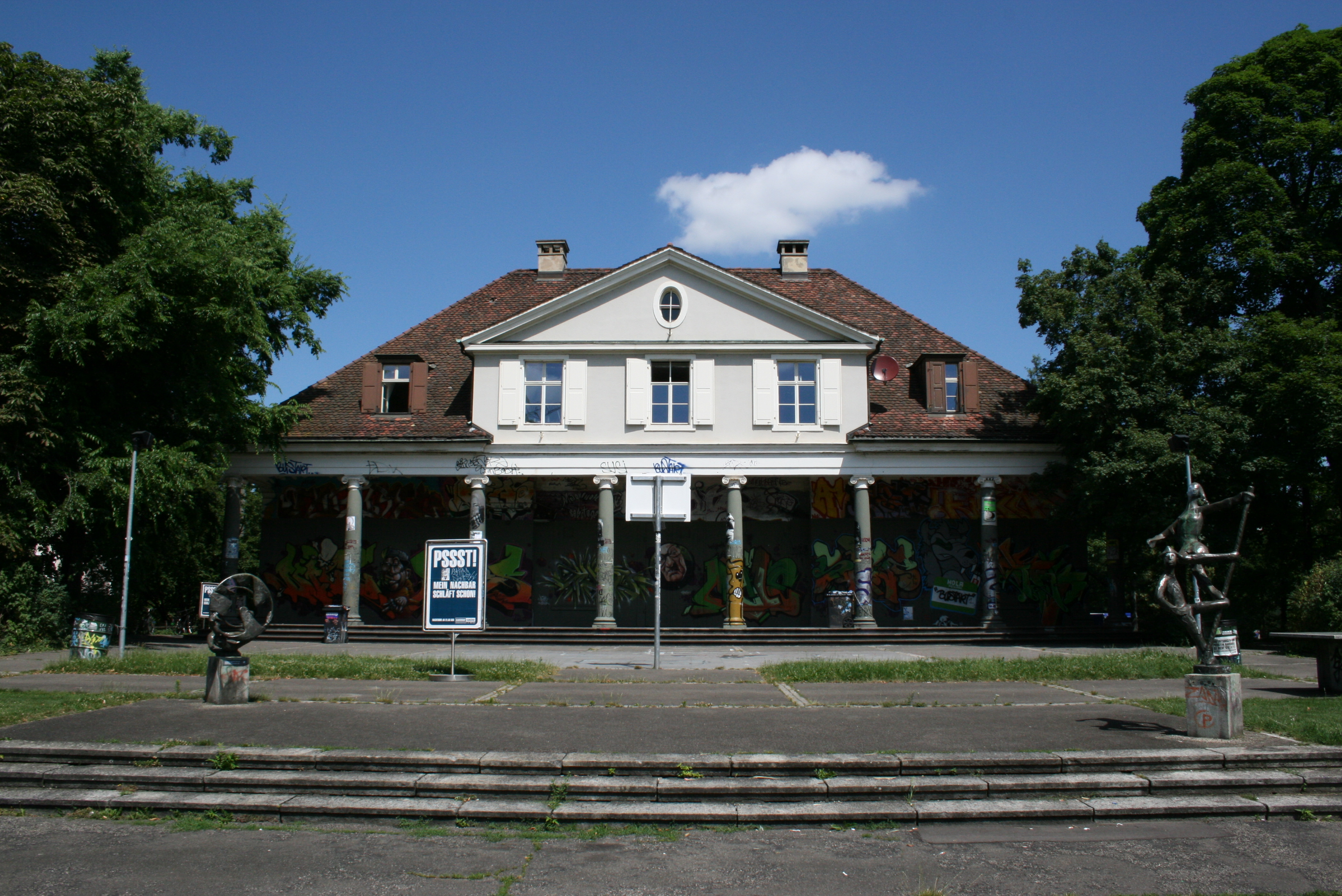 Front view of the Summer Casino in Basel, Switzerland.